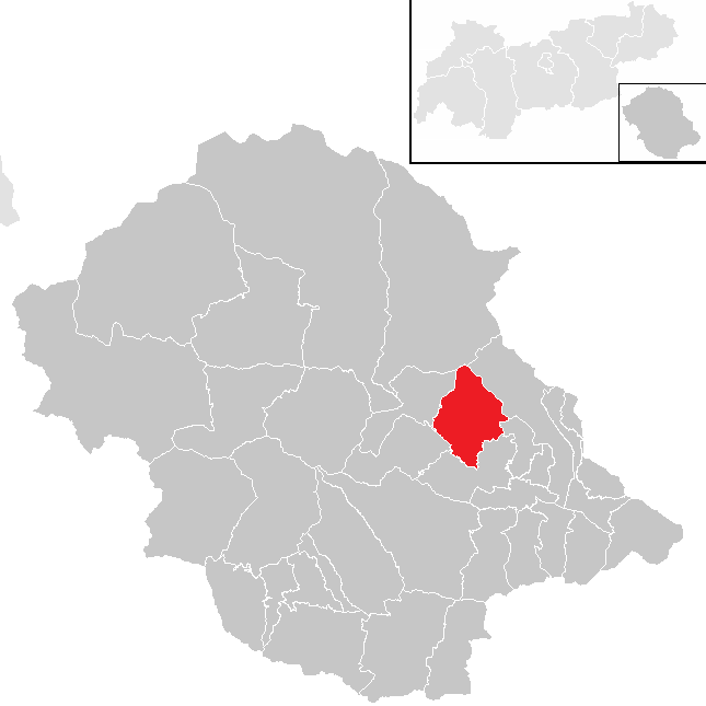 District Lienz